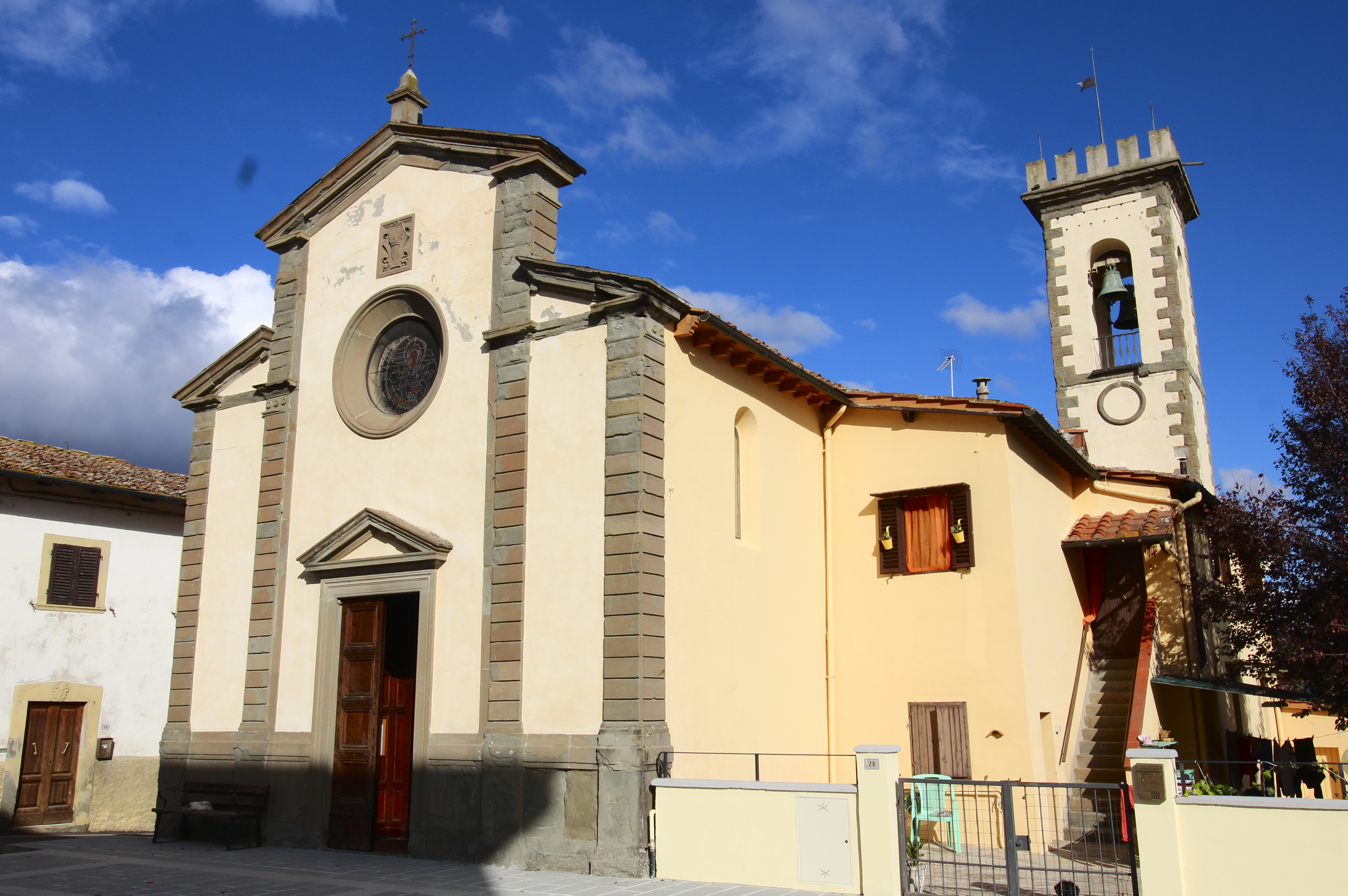 Church Santa Cristina, Meleto Valdarno, Cavriglia, Province of Arezzo, Tuscany, Italy